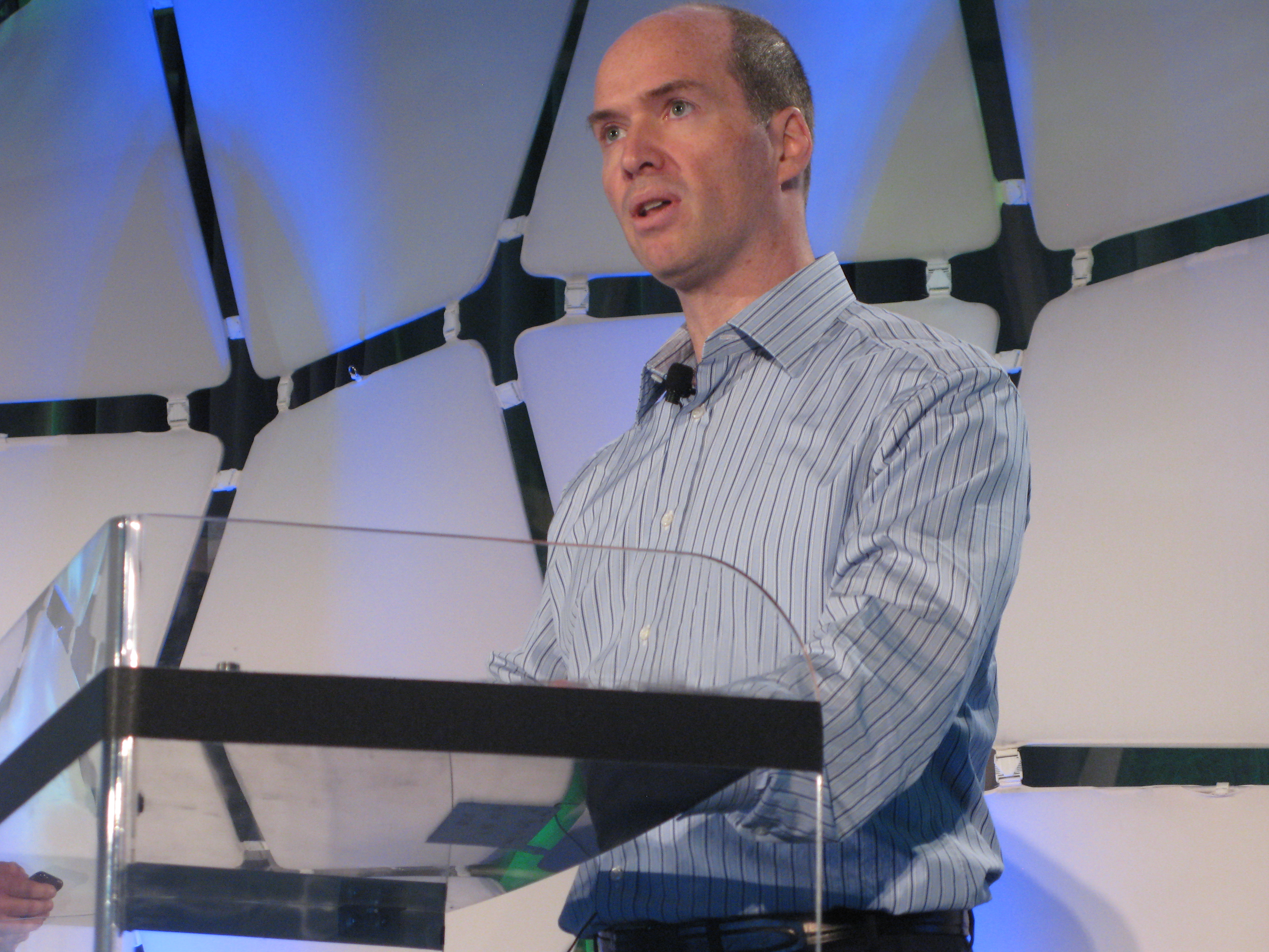 Ben Horowitz at the TechCrunch Disrupt conference.